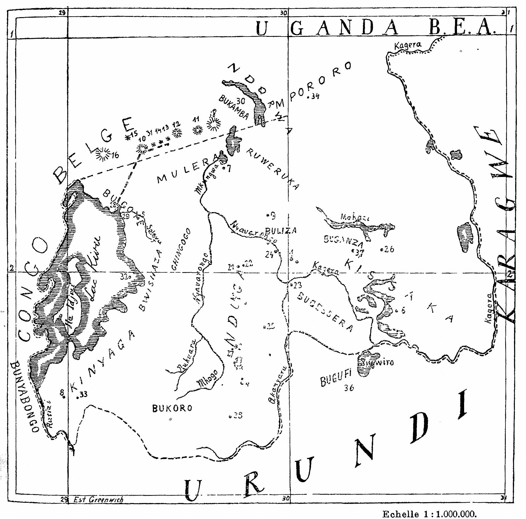 Map of the Ruanda area of the then German colony "German East Africa" with important lakes, provinces and localities mentionned in the given article